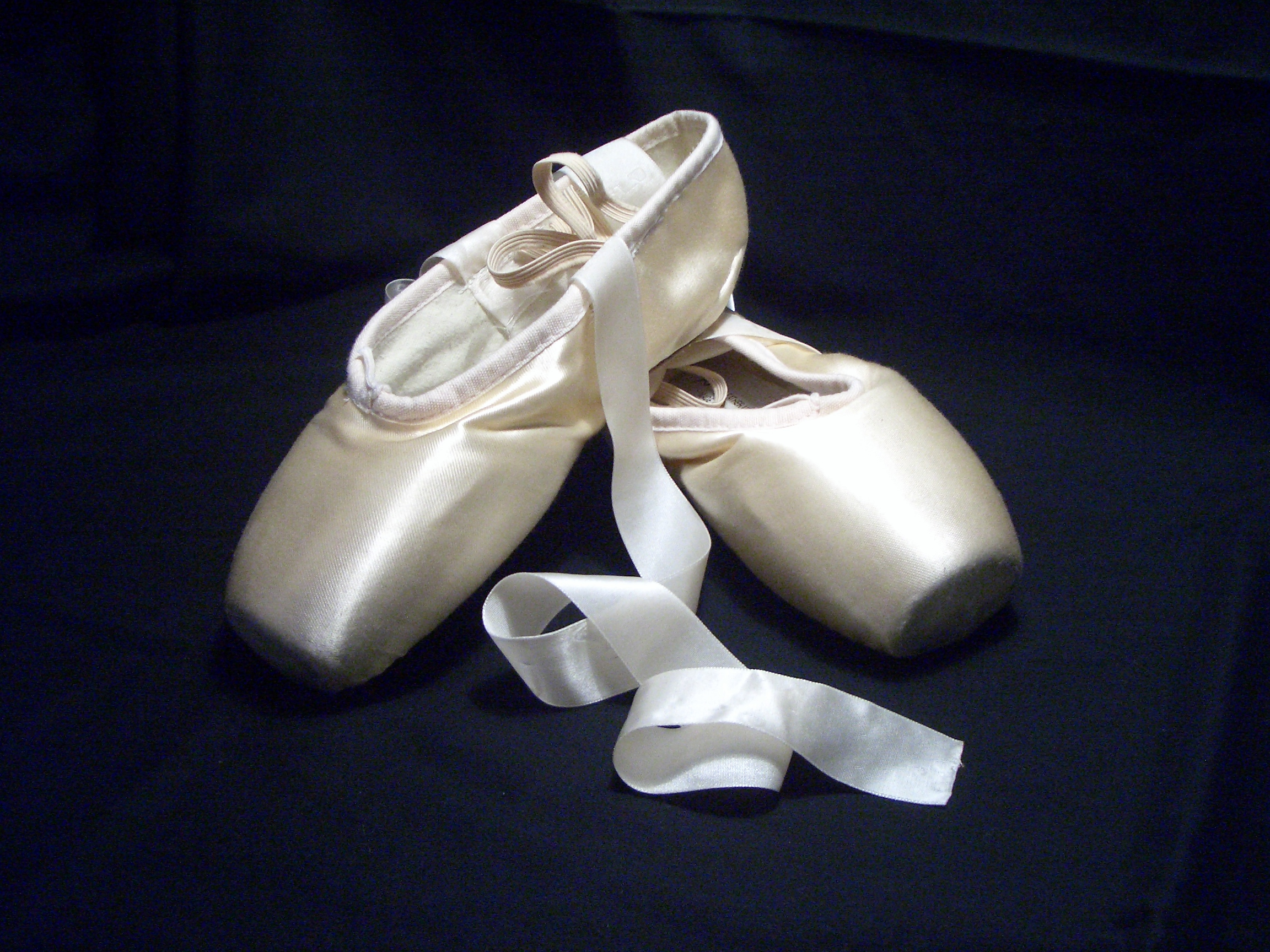 Bloch Signature Rehearsal pointe shoes with a black cloth backdrop.